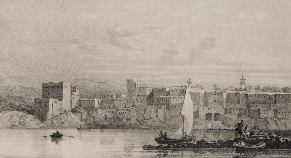 A view of the city of Beirut from across the water.